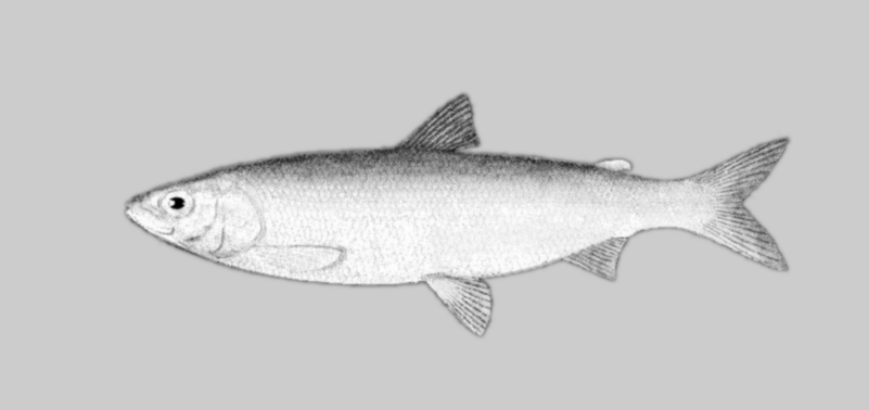 Shortnose cisco (Coregonus reighardi). From: Category:Salmoniformes images